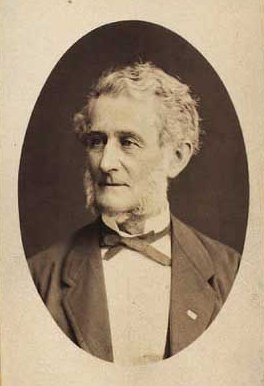 Danish engineer, director of the Zealand Railways, politician, MP Viggo Rothe (1814-1891)